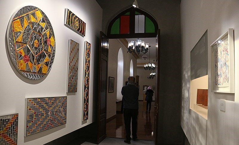 Baharestan